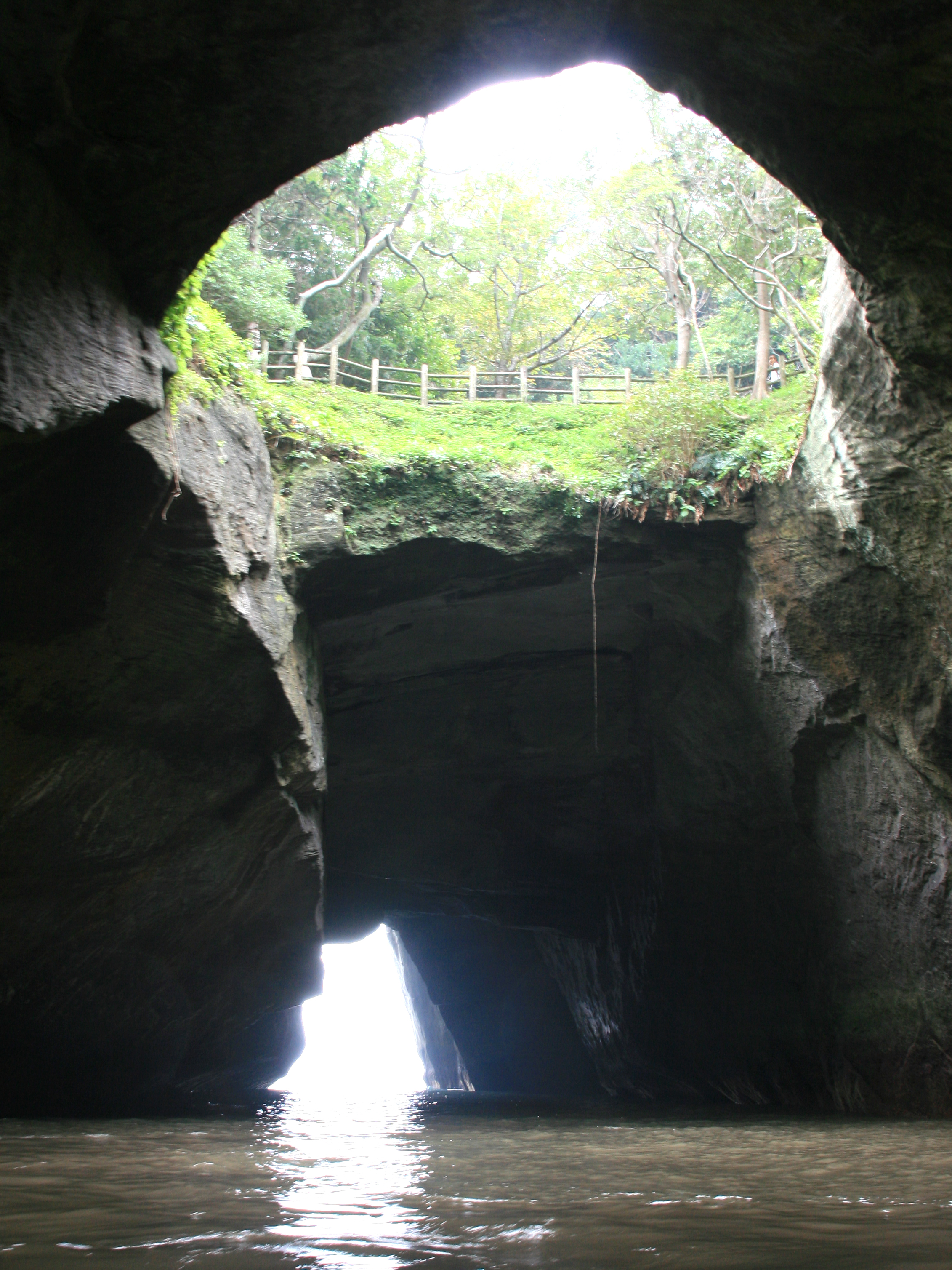 Tensodo, a sea cave in Nishiizu, Shizuoka Prefecture, Japan. This is a retouched picture, which means that it has been digitally altered from its original version. Modifications: Cropping. Modifications made by Batholith.